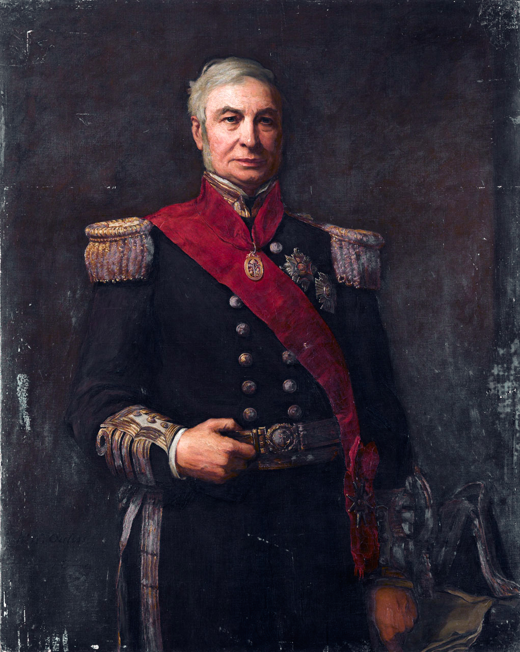 Admiral Alexander Milne (1808-1896) oil on canvas 128 x 102.5 cm 1879